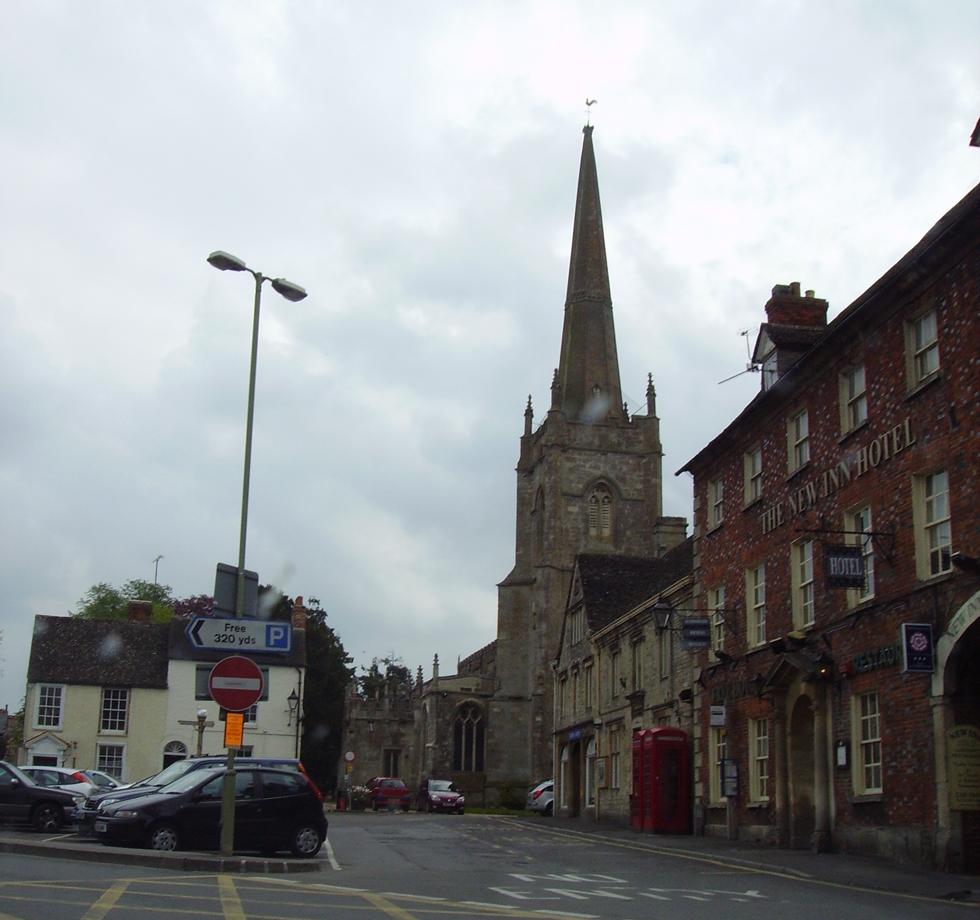 The centre of Lechlade, Gloucestershire, with the tower and spire of St LAwrence's parish church